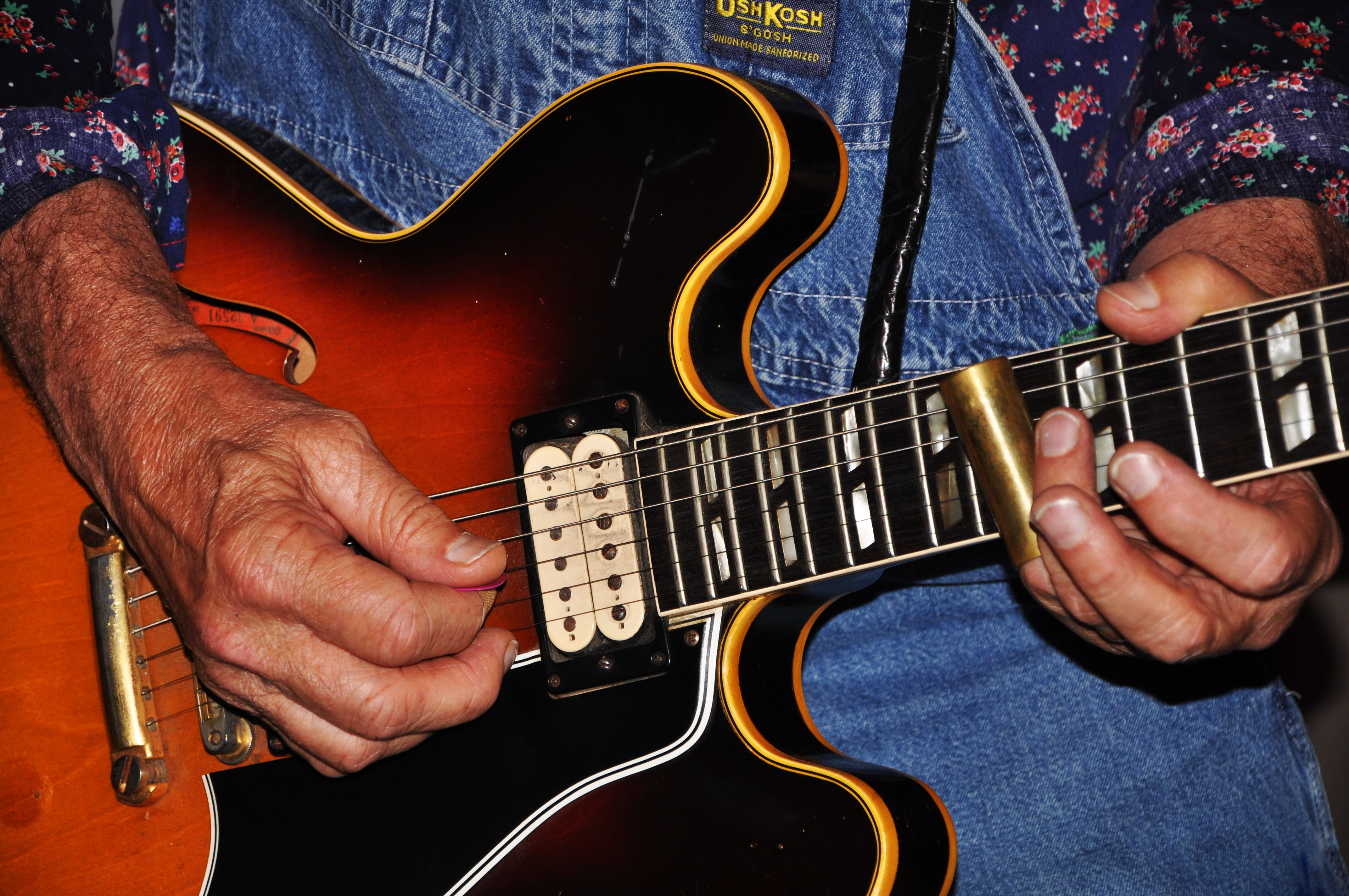 Elvin Bishop's slide guitar; photo taken at Bishop's concert on July 3, 2010 at Boston's On The Beach